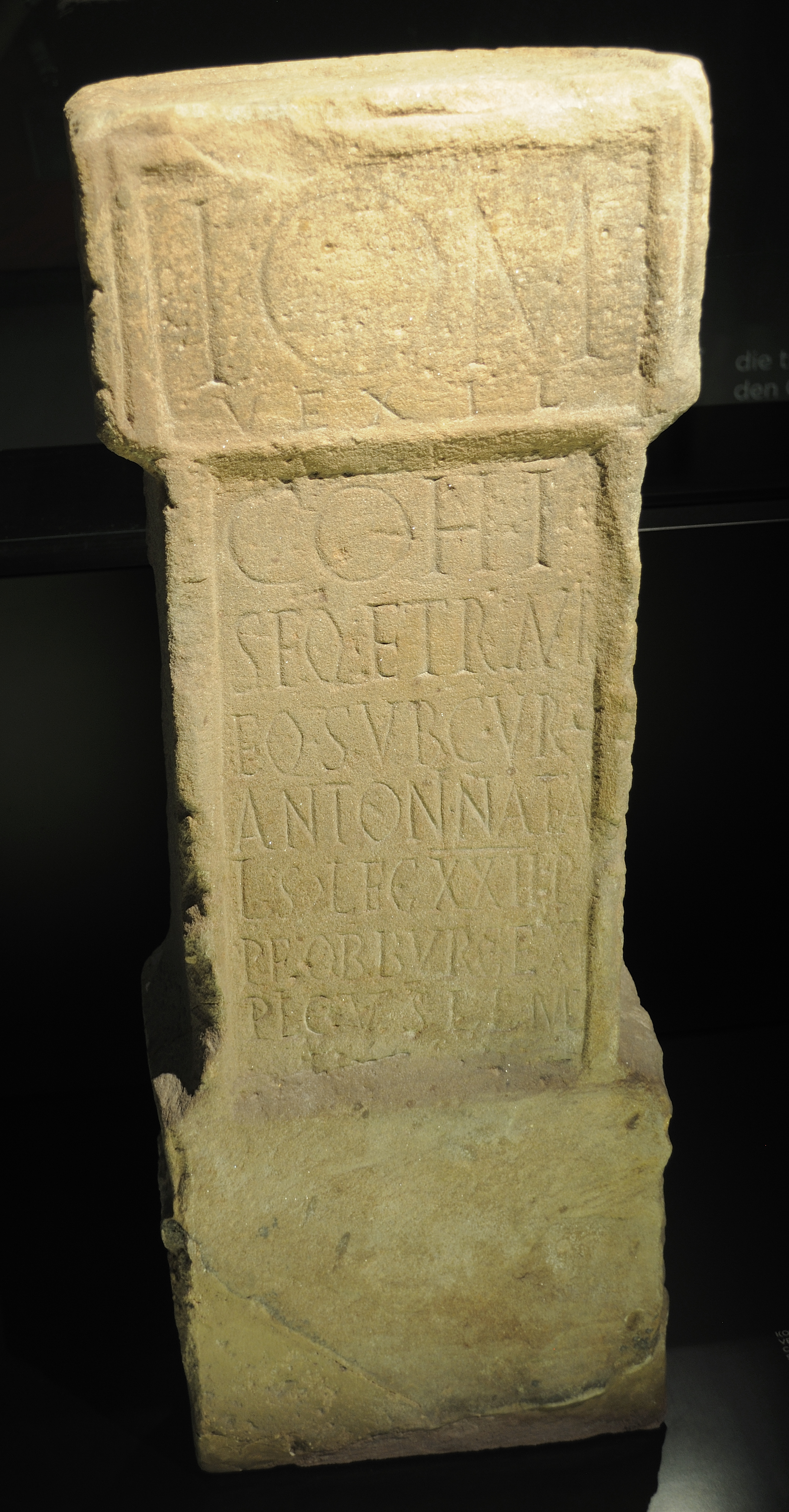 Picture taken in the Roman history museum in Osterburken.